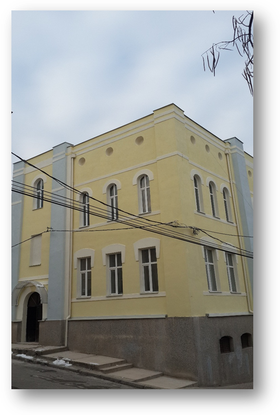 The building of the archives of Strumica, a department of the State Archive of the Republic of Macedonia. This media file is produced by Wikipedian in Residence in Category:Wikipedian in Residence at DARM in 2016.